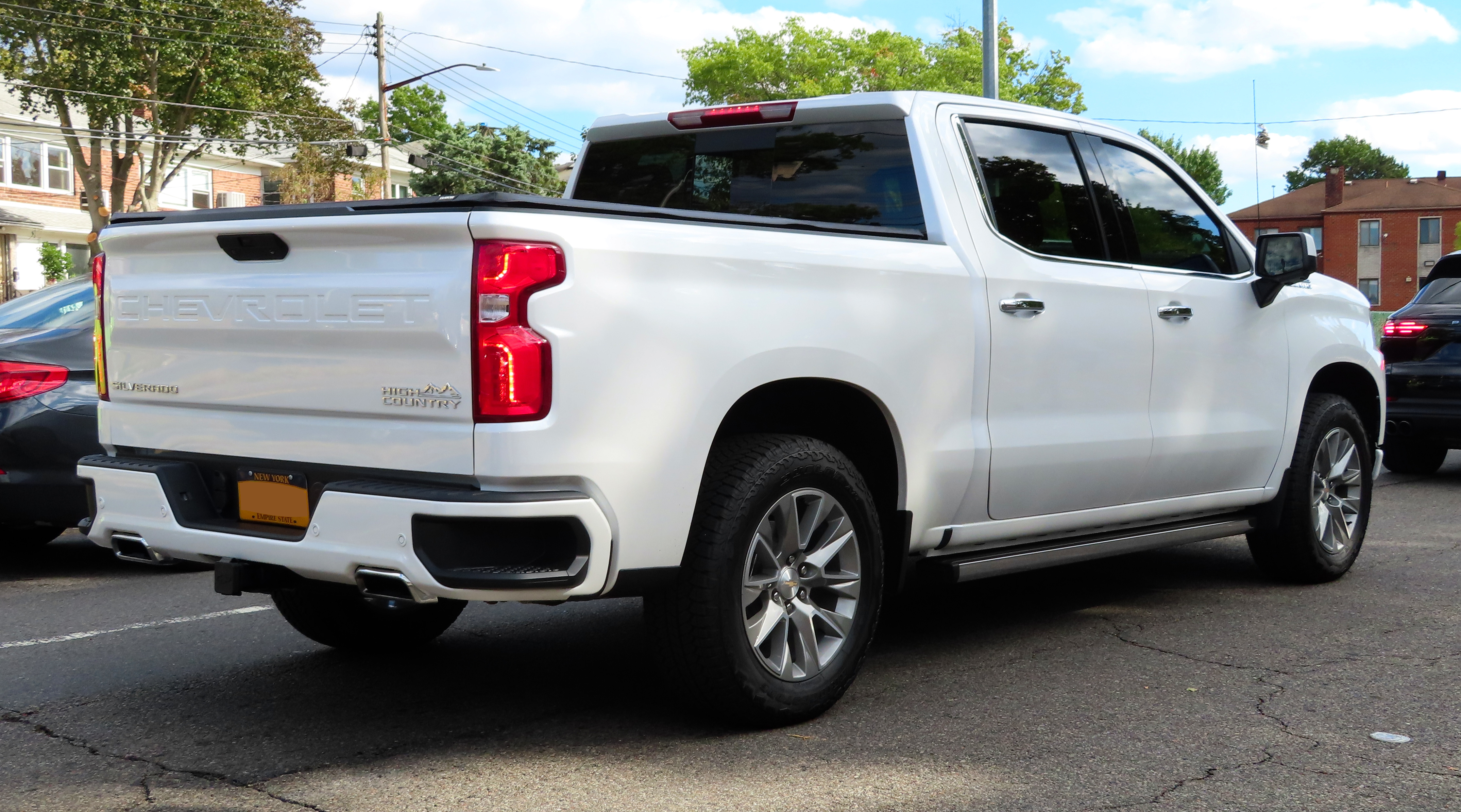 A 2019 Chevrolet Silverado photographed at Francis Lewis High School, Fresh Meadows, Queens, New York, USA